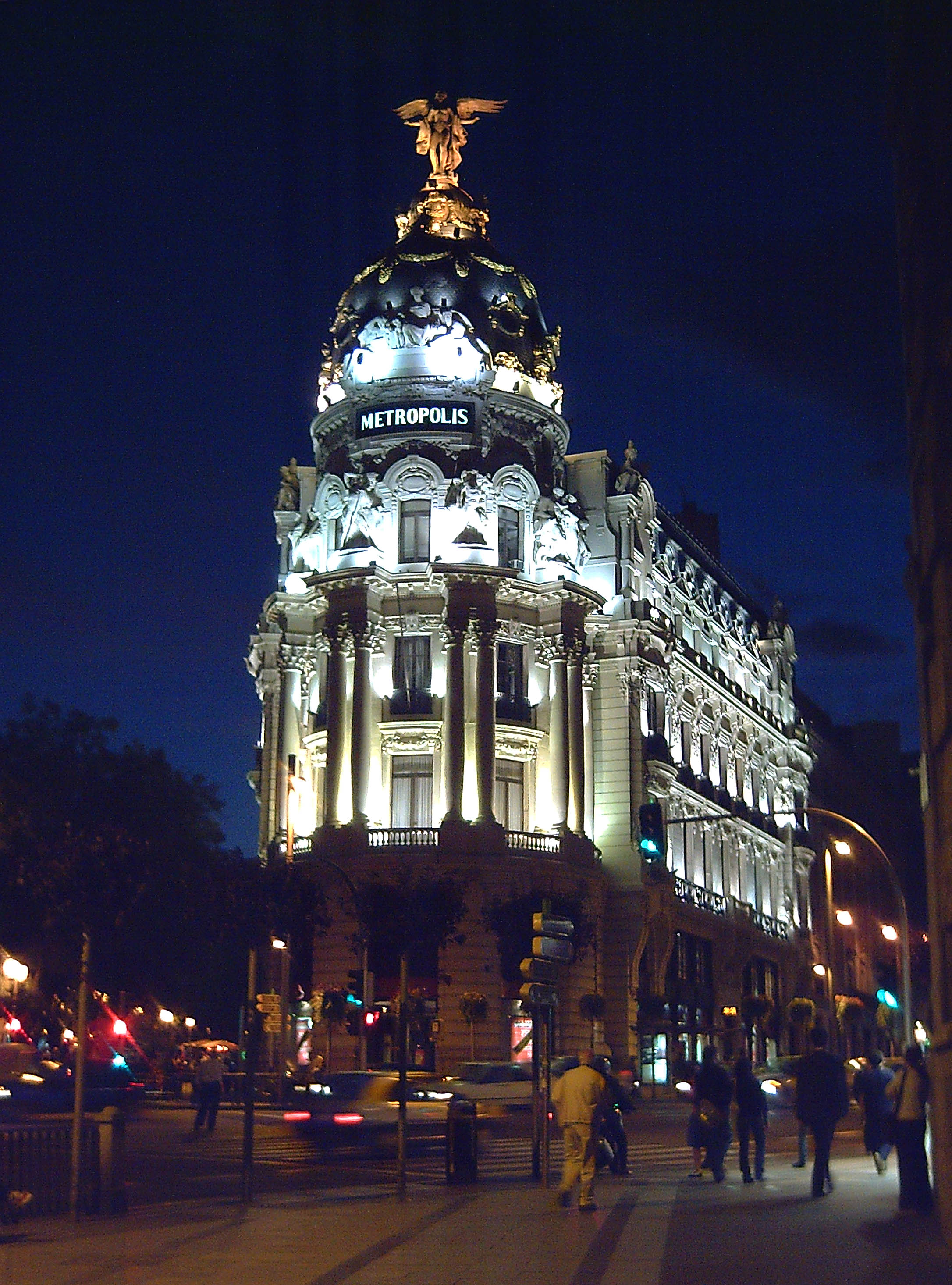 Night view of the Metropolis Building in Madrid (Spain). Projected by Jules and Reymond Fevrier in 1906 and built from 1907 to 1910. The winged victory at the top, a work by Federico Coullaut-Valera, was placed in 1975.